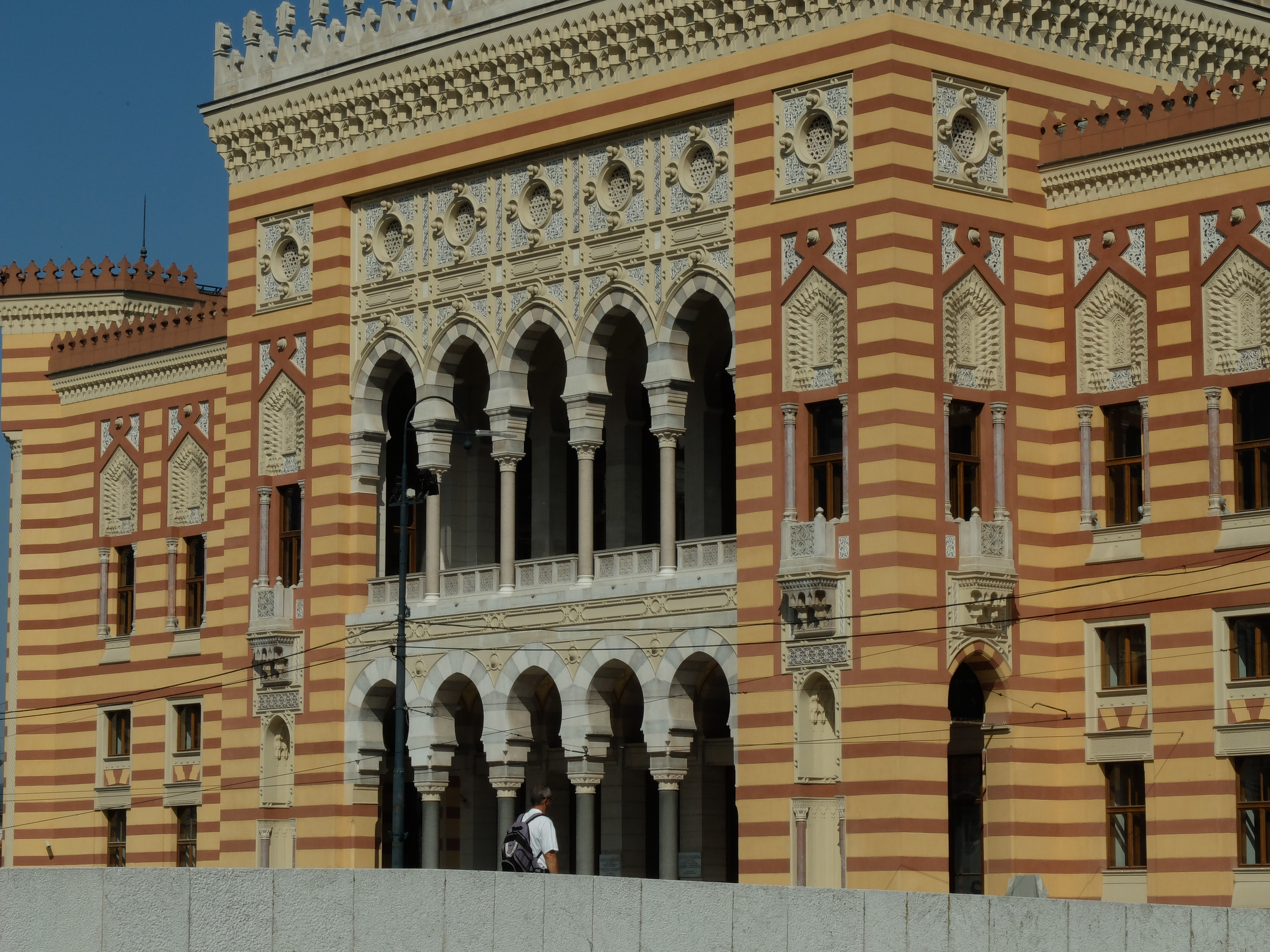 The libary of Sarajevo today completely refurbished after the fire that destroyed almost all books and memories during the war of 1994